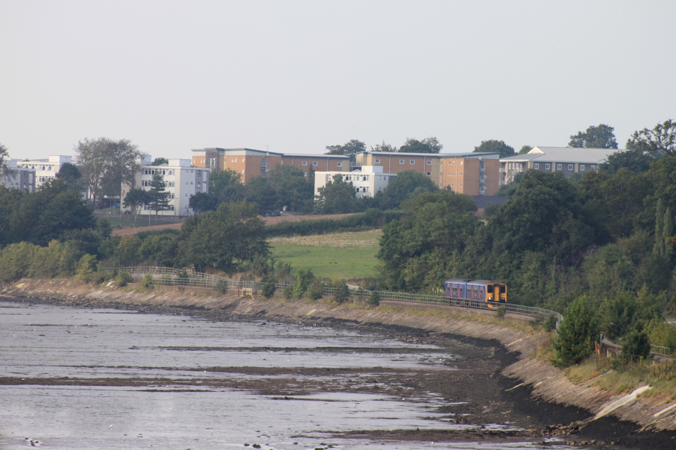 It's low tide on the River Exe as 150233 passes the Royal Marine Commando training camp at Lympstone with an Avocet Line service to Exmouth.